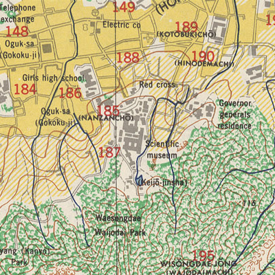 Official residence of Governor General of Korea, Namsan